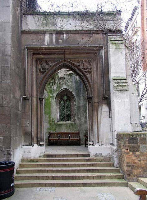 St Dunstan in the East, St Dunstan's Hill, London EC4 - Doorway Ruin